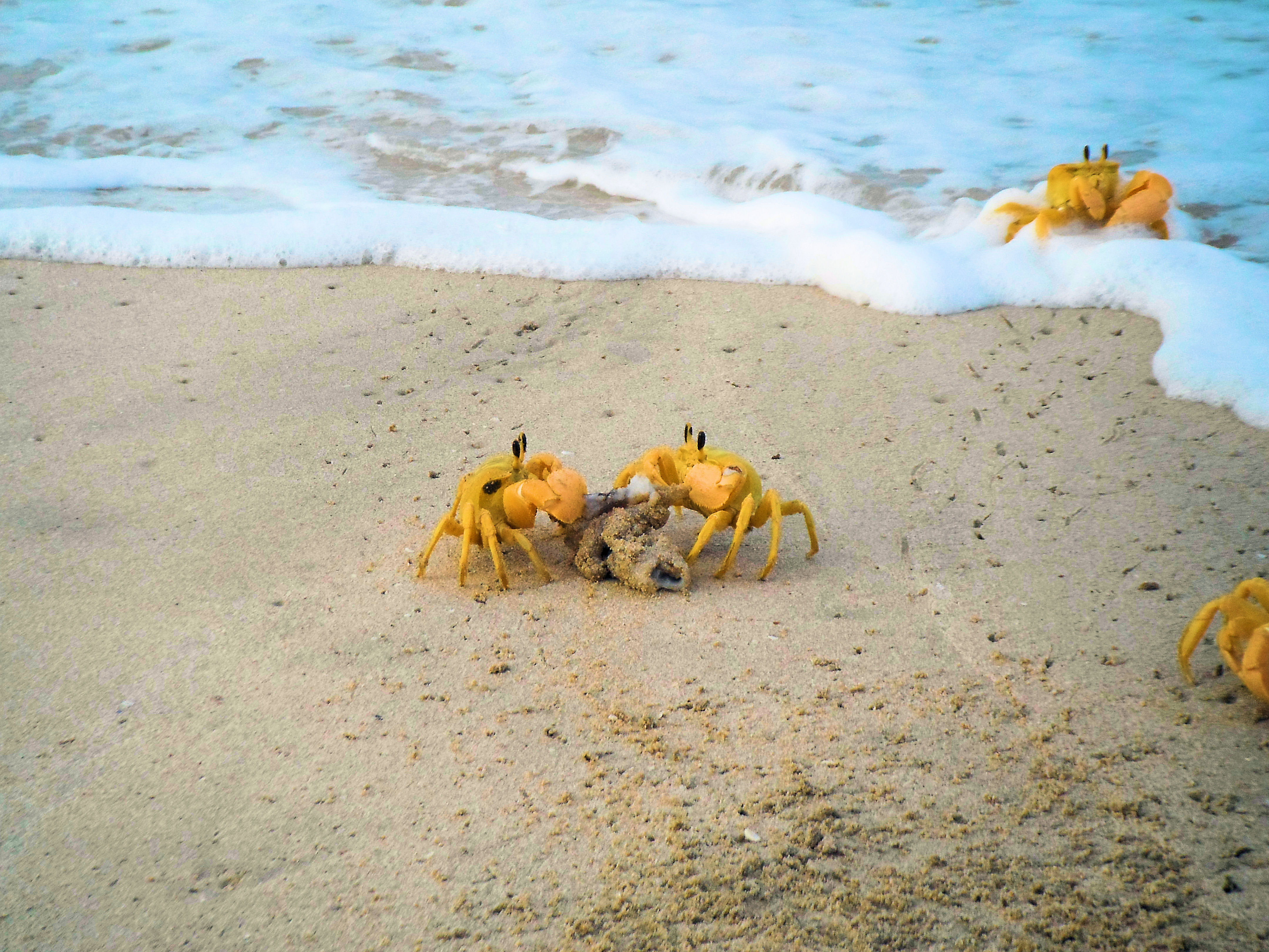 Golden ghost crabs (Ocypode convexa) eating octopus at Gnaraloo Bay Rookery, WA